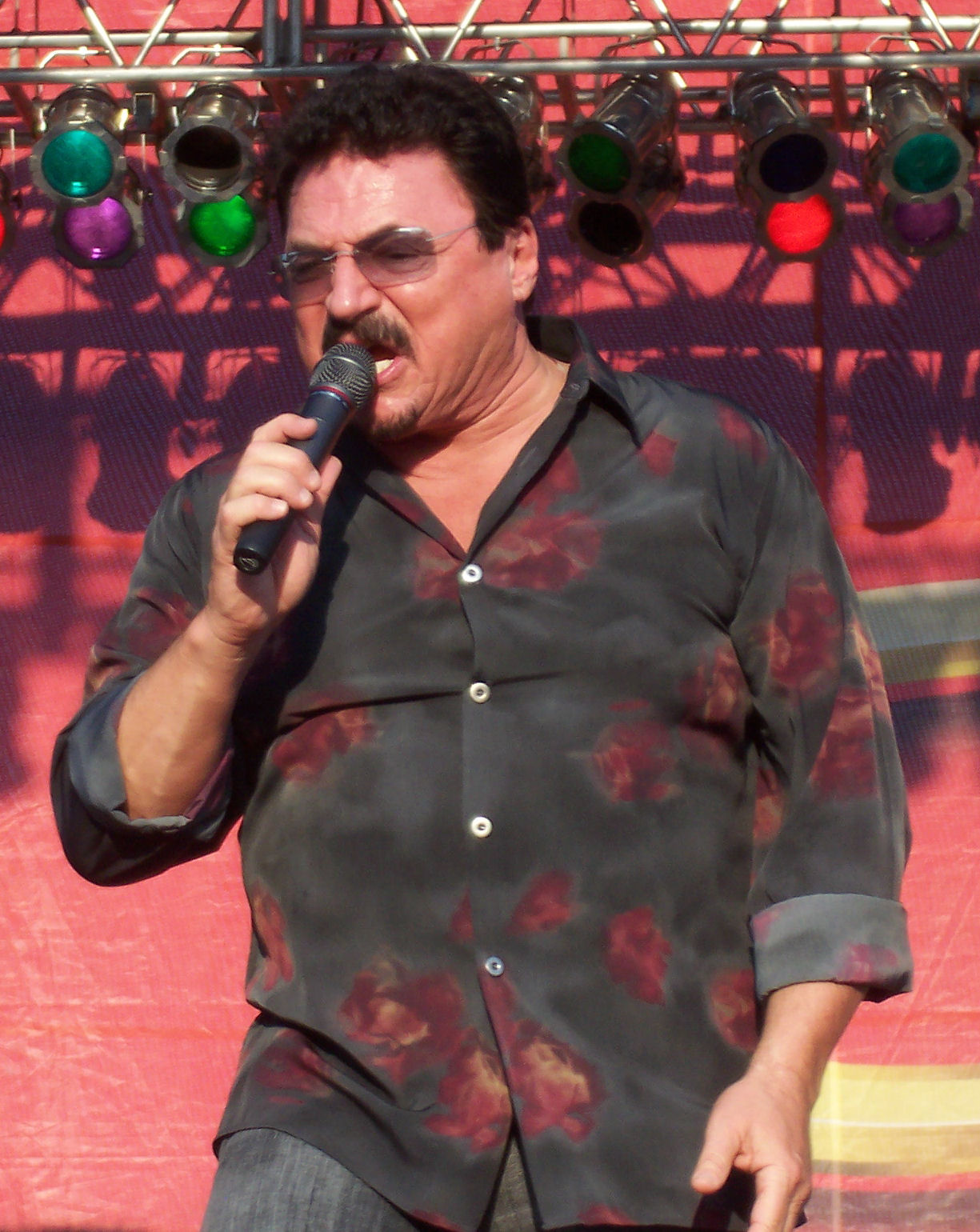 from Toto Moondance Jam concert 7/14/07. Photo by Matt Becker